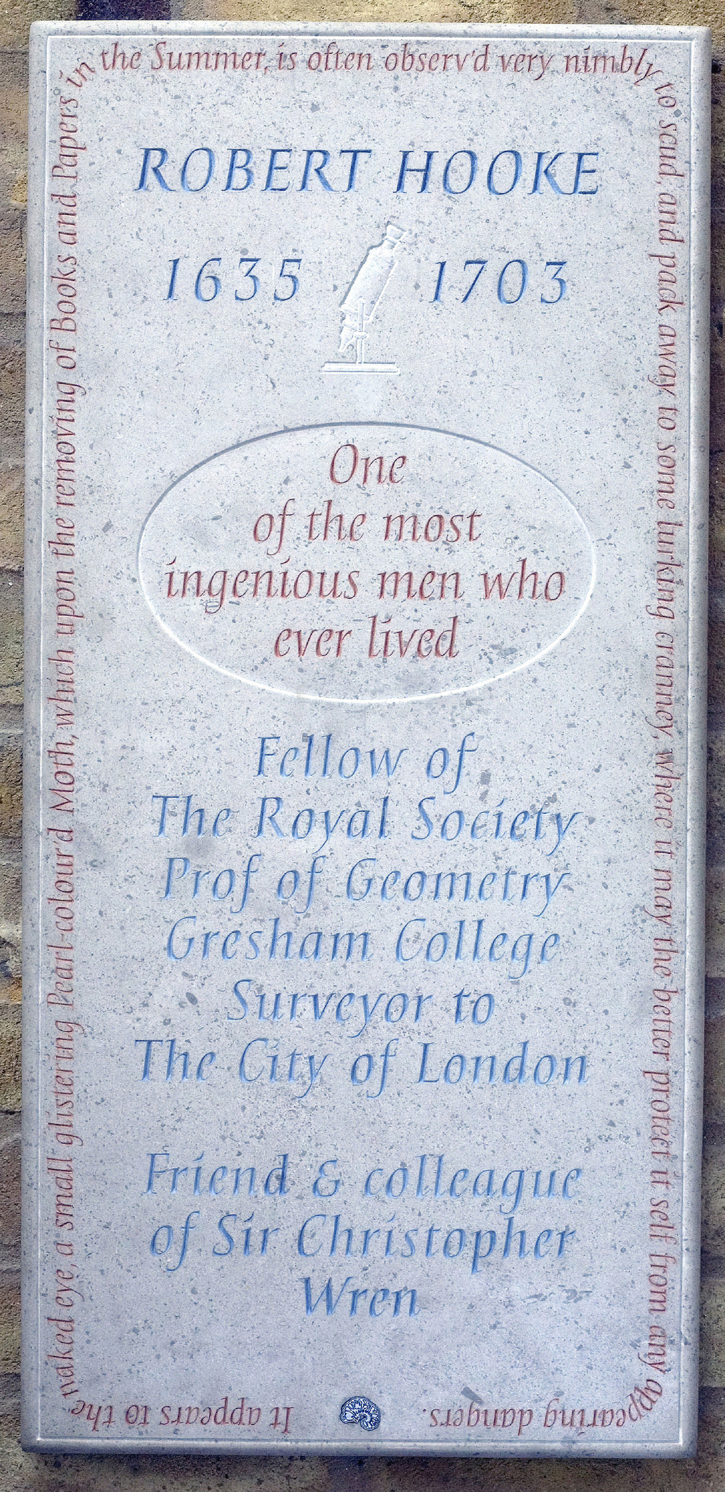 Memorial to Robert Hooke in St Paul's Cathedral: This is the site of the most recent memorial to Robert Hooke. The stone was cut by Richard Kindersley. It is sited on the wall in the crypt of the cathedral, next to the tomb of Sir Christopher Wren. The quotation around the edge is from Micrographia, Hooke's amazing book, published in 1665. At the bottom of the memorial is an engraved metal bookworm in brass and chrome, recessed into the stone surface. As the crypt is rather a dark place, a pale, ivory-coloured stone was chosen (Hoptonwood) and the carved letters were painted with blue and brownish-red watercolour to make them more easily read. The memorial was dedicated by the Dean of St.Paul's after a special Evensong. It will remain for many centuries to commemorate Robert Hooke.